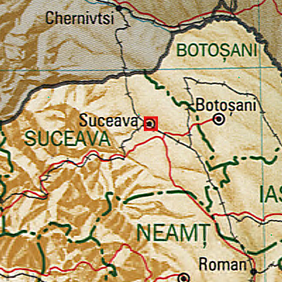 Map of Suceava Municipality, Romania.